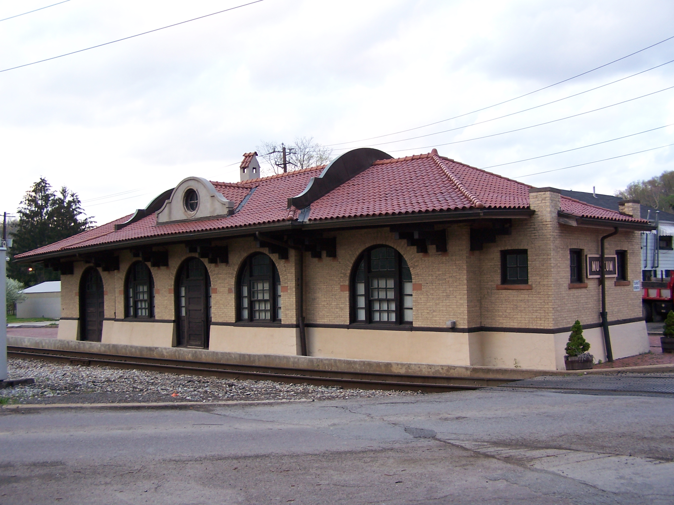 Baltimore & Ohio Railroad depot in Philippi, West Virginia.